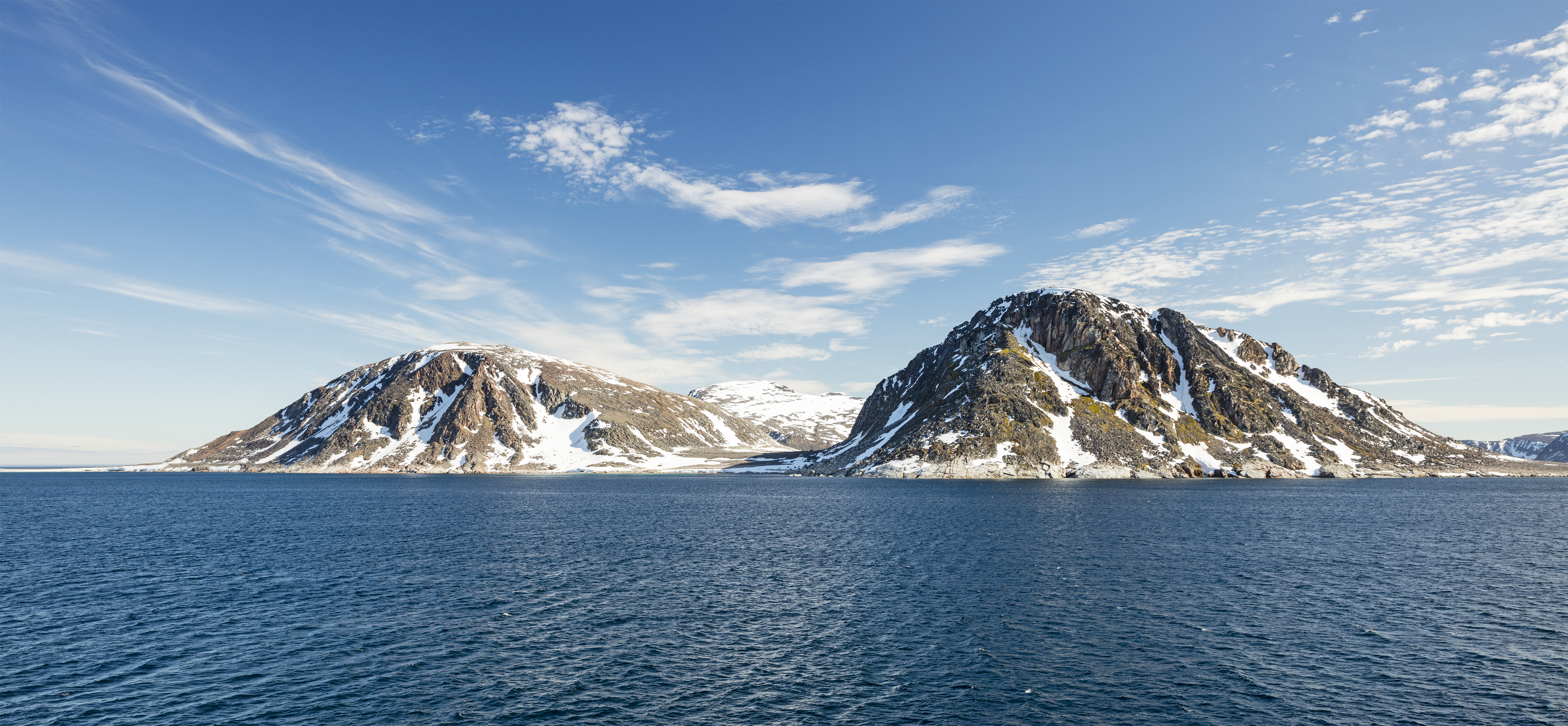 View of southern Phippsøya from the Straumporten sound; one of the Sjuøyane islands in the most northern part of Svalbard